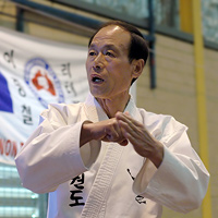 World Master Chong Chul Rhee, Father of Australian Tae Kwon-Do, in March 2007.